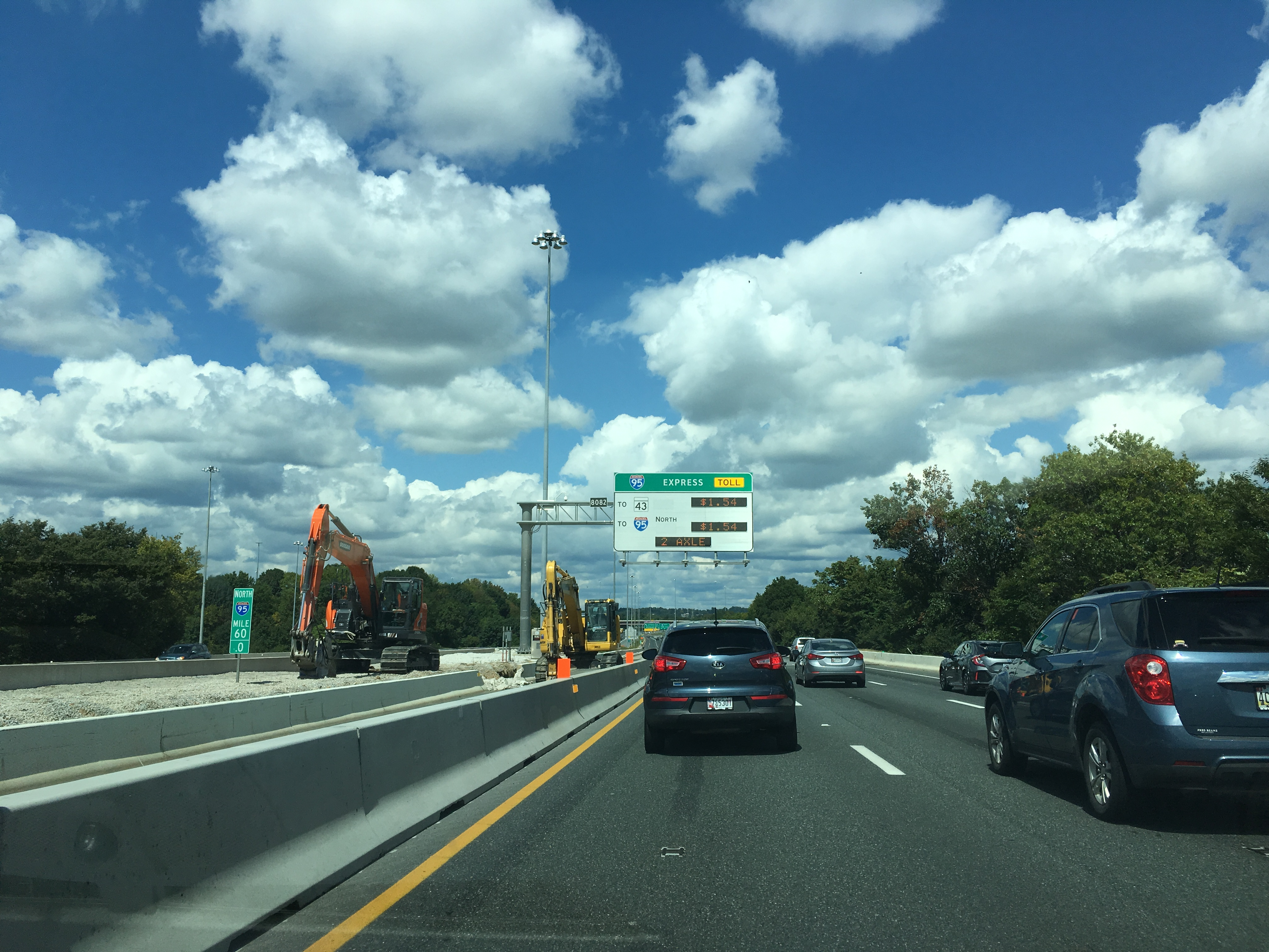 Northbound Interstate 95 (John F. Kennedy Memorial Highway) with a sign displaying the rates for the express toll lanes in Baltimore, Maryland.